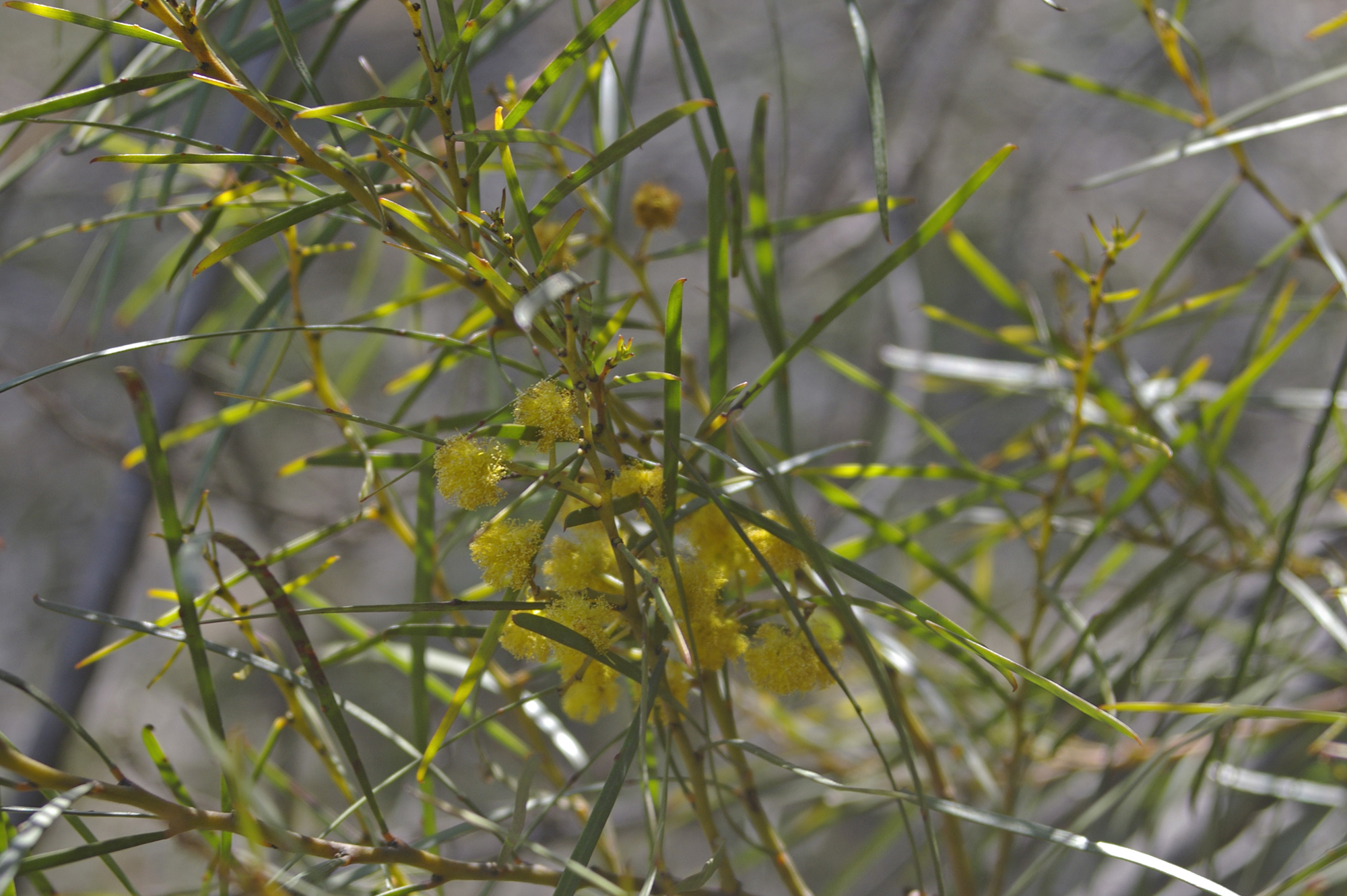 Acacia elongata (Known as Swamp Wattle or Slender Wattle) growing in Rotoract Park located in Kooringal, New South Wales, Australia